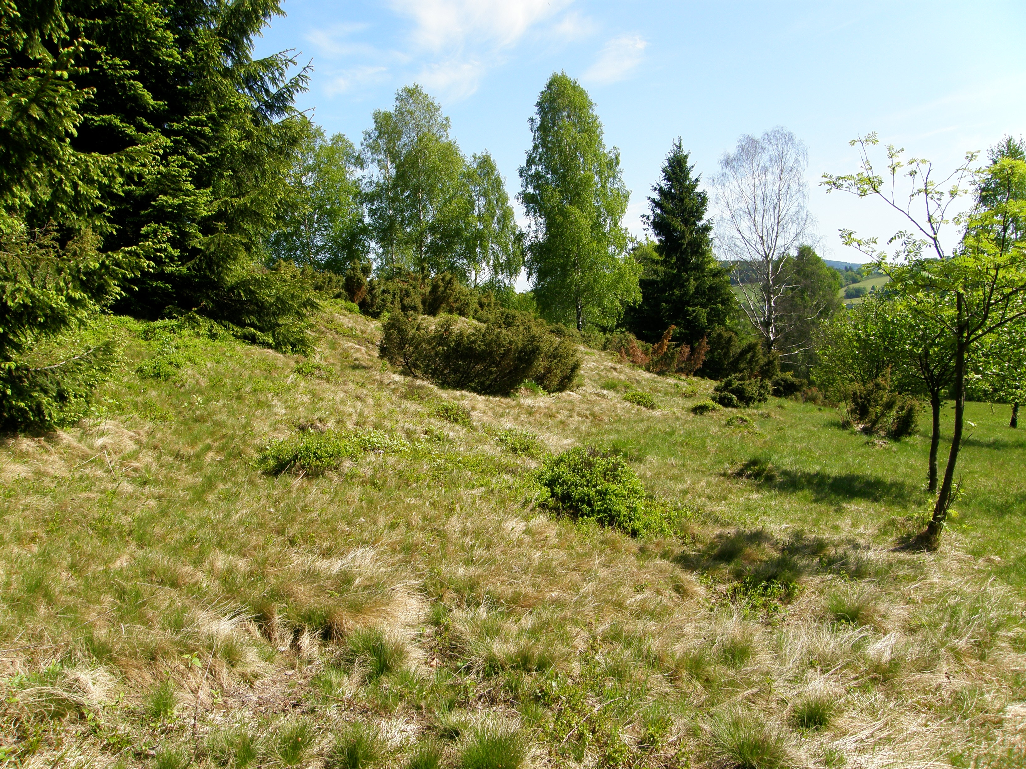 PR (Nature reserve) Vřesová stráň